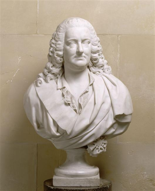 Bust of Joseph-Francois Dupleix, probably carved in 1787.